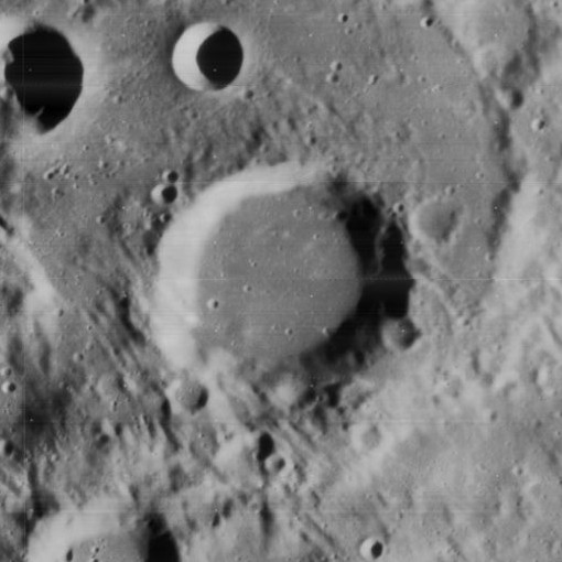 Noggerath, on the moon.